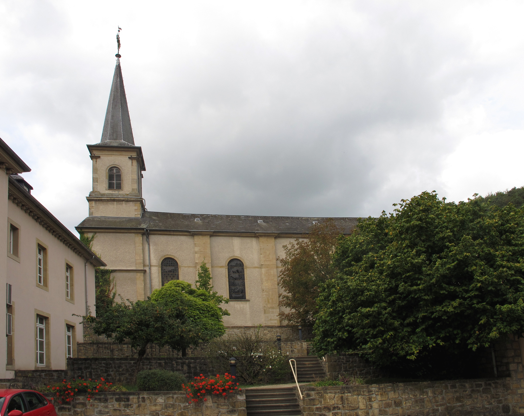 Church in Kopstal, Luxembourg